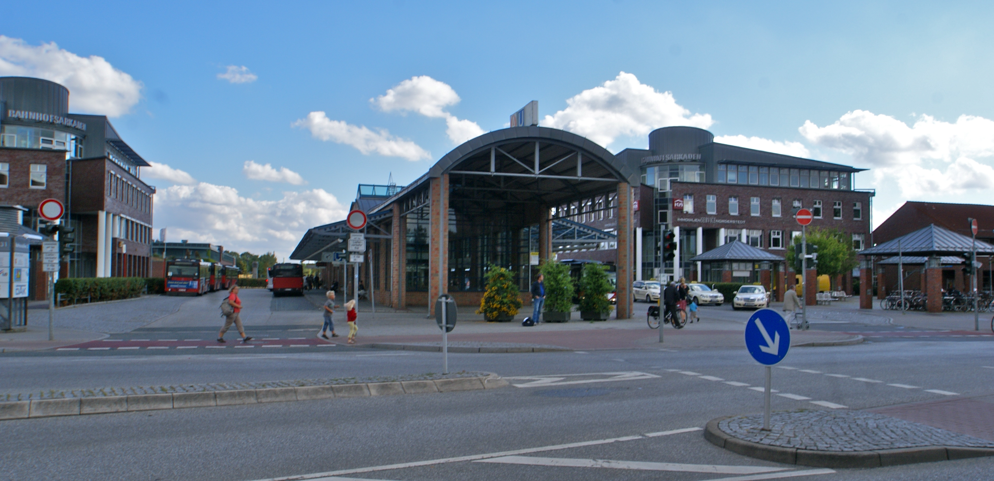 Norderstedt (Germany): Norderstedt-Mitte Railway and underground station